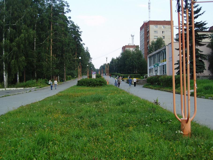 Boulevard of the Russian town of Zarechny (southern part))